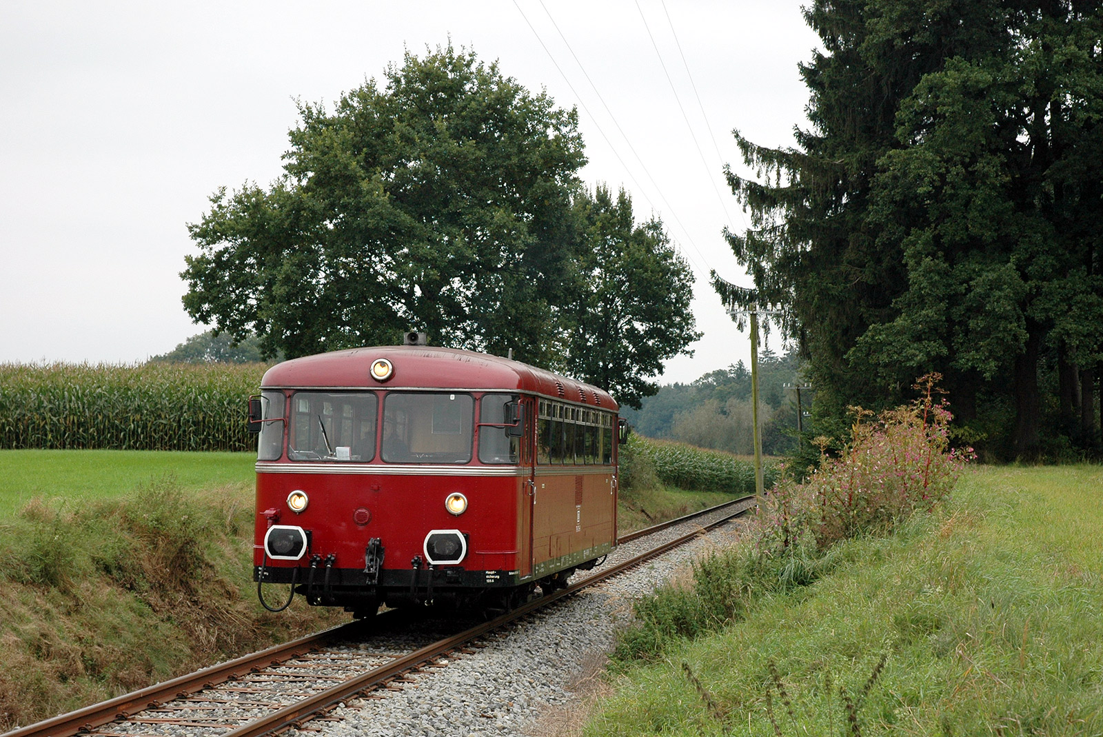 "Schienenbus" 798 706 forming an extra train on the bavarian branch line Grafing–Wasserburg on September 14th, 2008. Picture taken between Edling und Brandstätt.